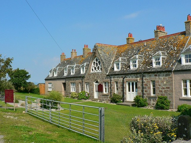 Bishop's House, Iona. But not the house where a bishop lives. See 983902 for information from the notice at the left of the picture.